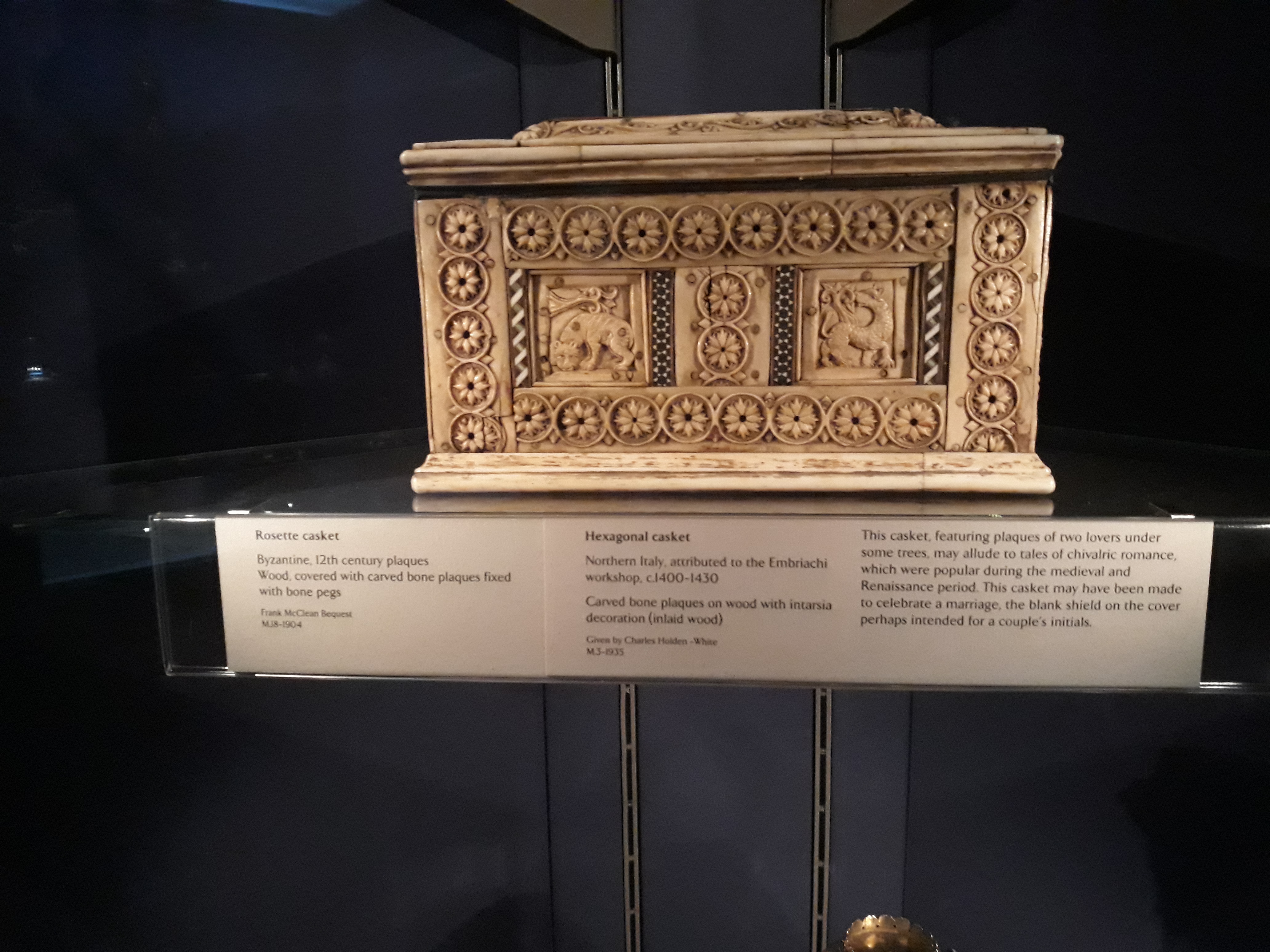 Carved bone plaques fixed to wood with bone pegs